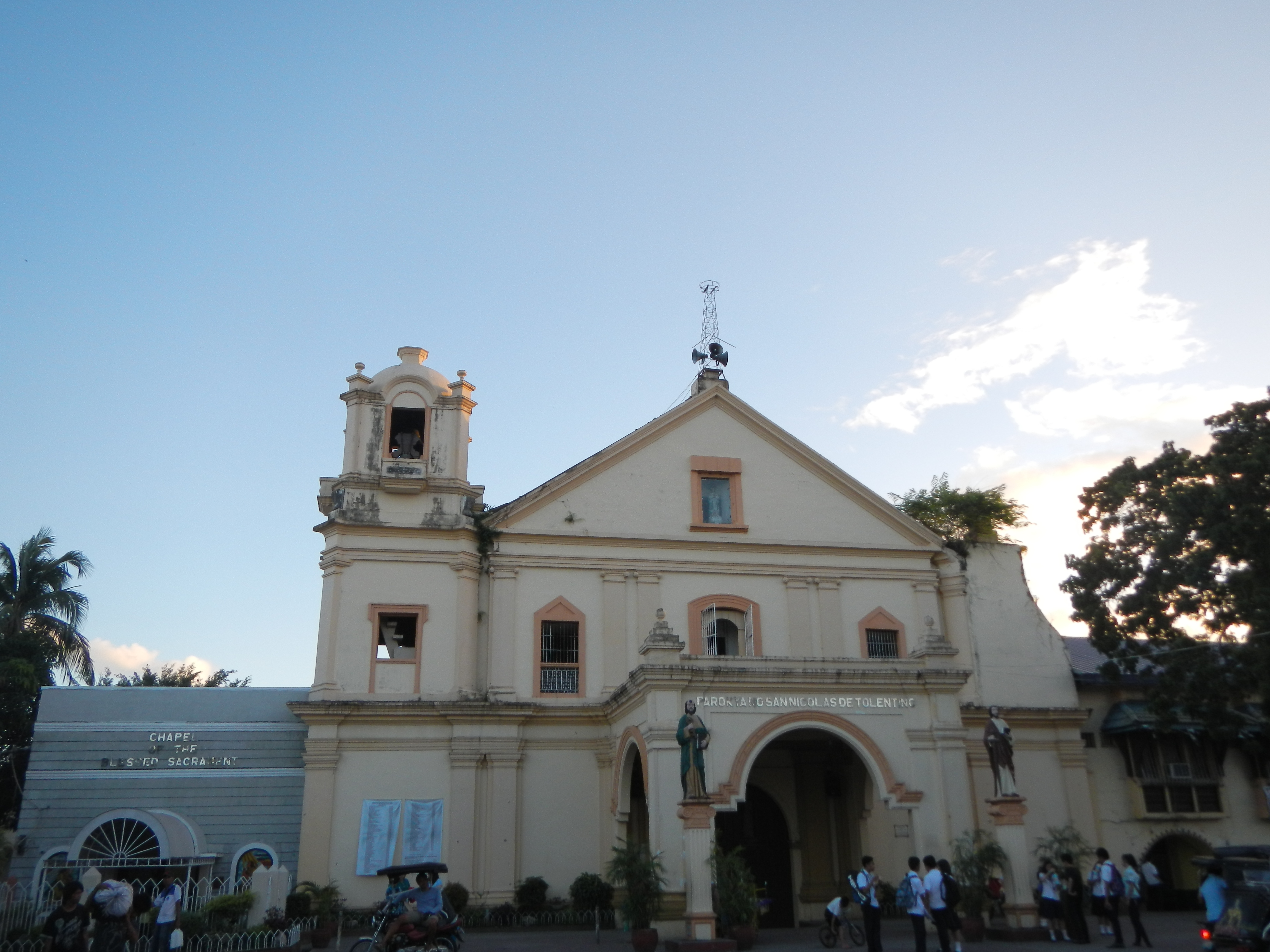 San Nicolas de Tolentino Parish Church Macabebe[1]